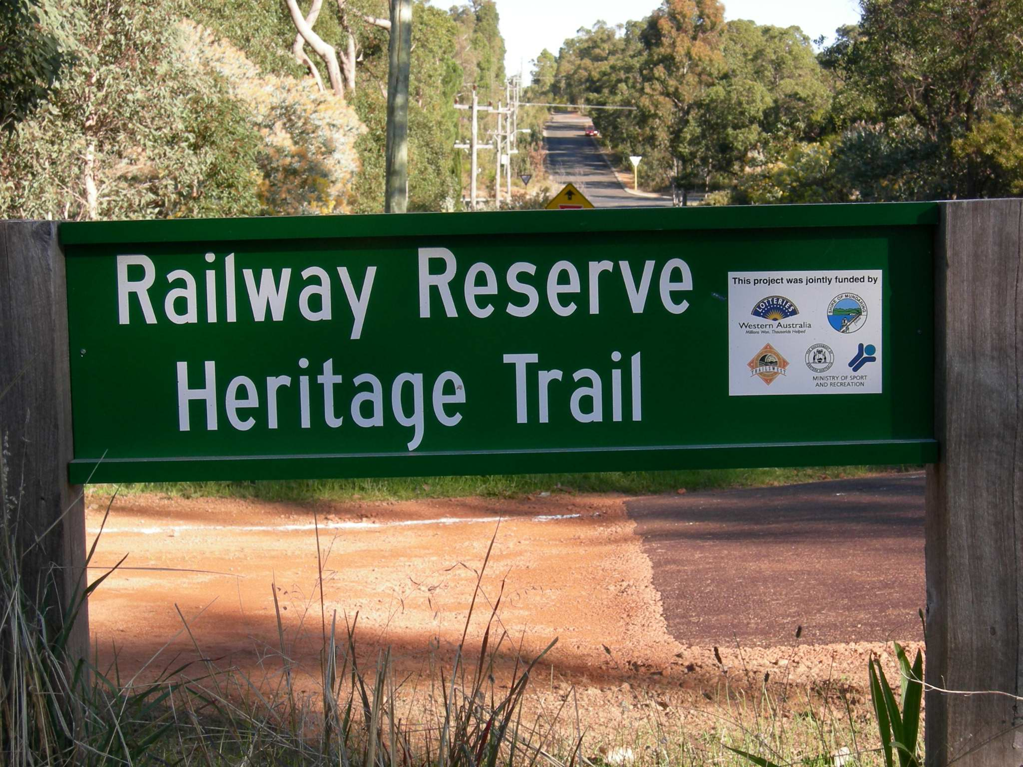 Railway Reserve Heritage Trail Sign Board - Mundaring Shire region, Western Australia